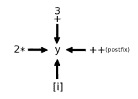 Programming operator precedence bindings diagram, meant to illustrate order of bindings